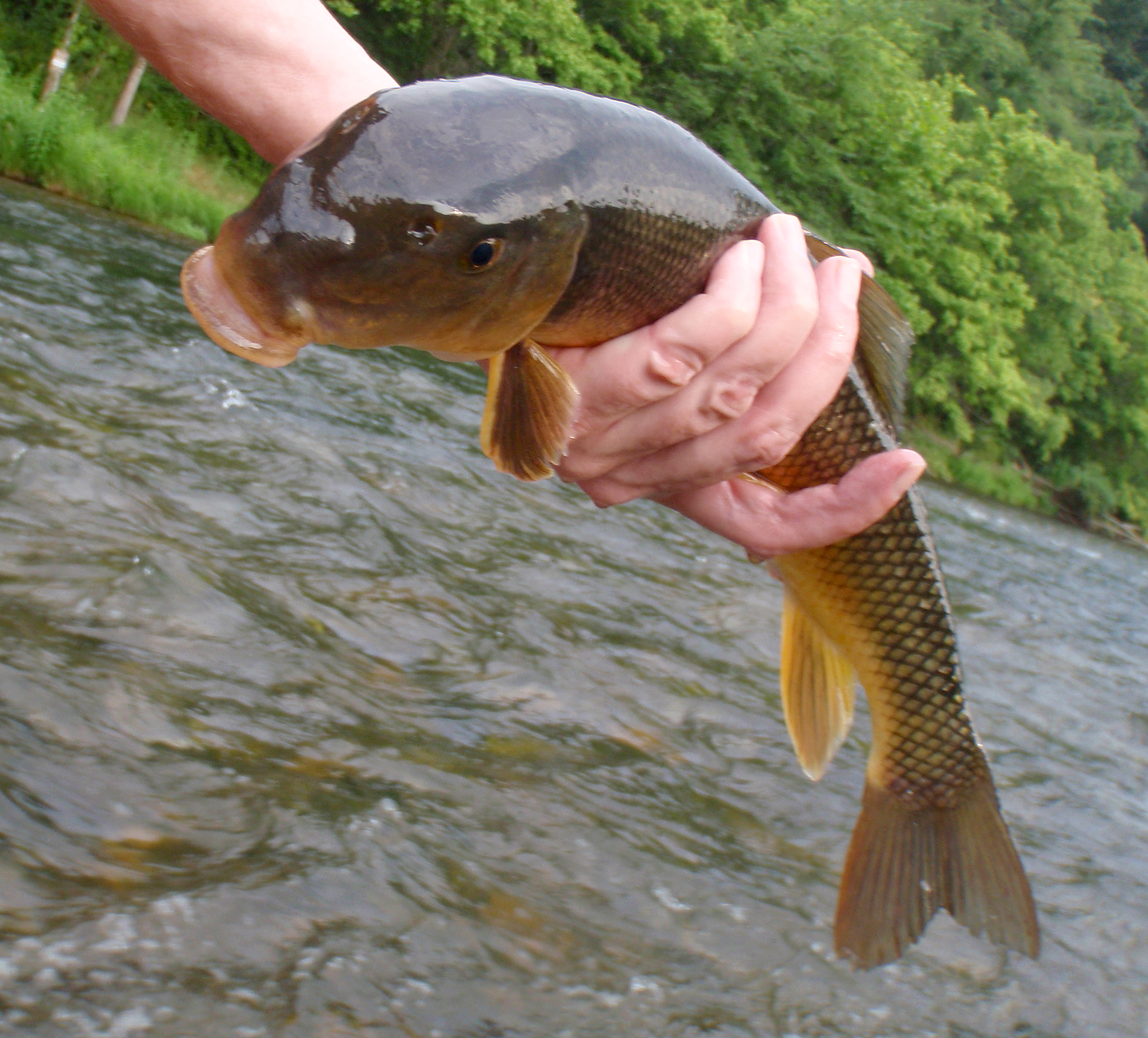 Black Redhorse, Moxostoma duquesnei